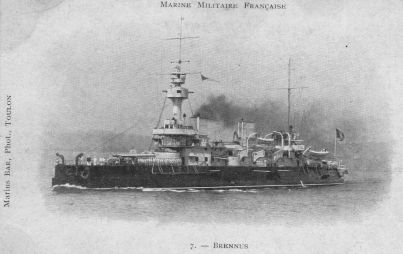 French battleship Brennus (1882-1922)